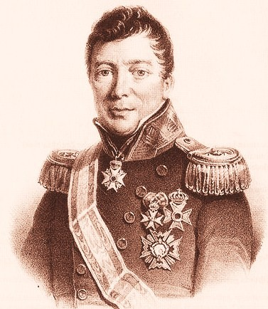 C.J. Wolterbeek